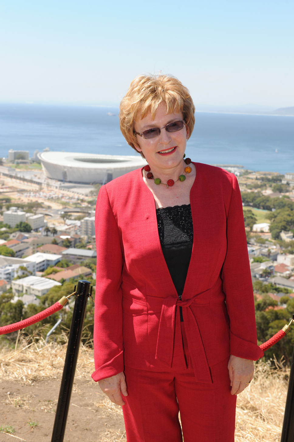 Helen Zille, Premier of the Western Cape welcomes FIFA on a state of readiness tour of the Cape Town Stadium. Image taken from Signal Hill - December 2009 (Image taken by Bruce Sutherland, City of Cape Town)